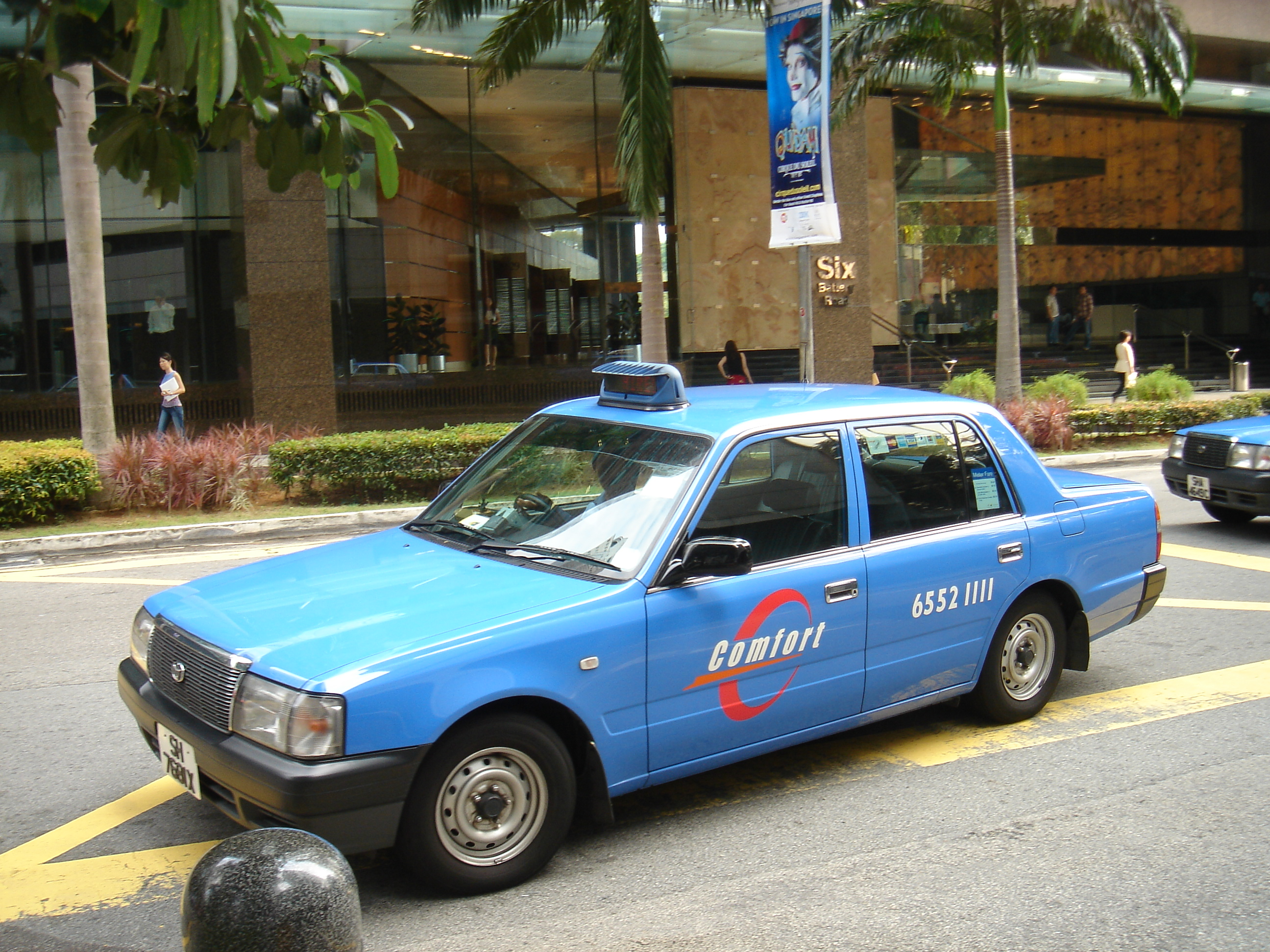 A Comfort taxicab at Raffles Place, Singapore.